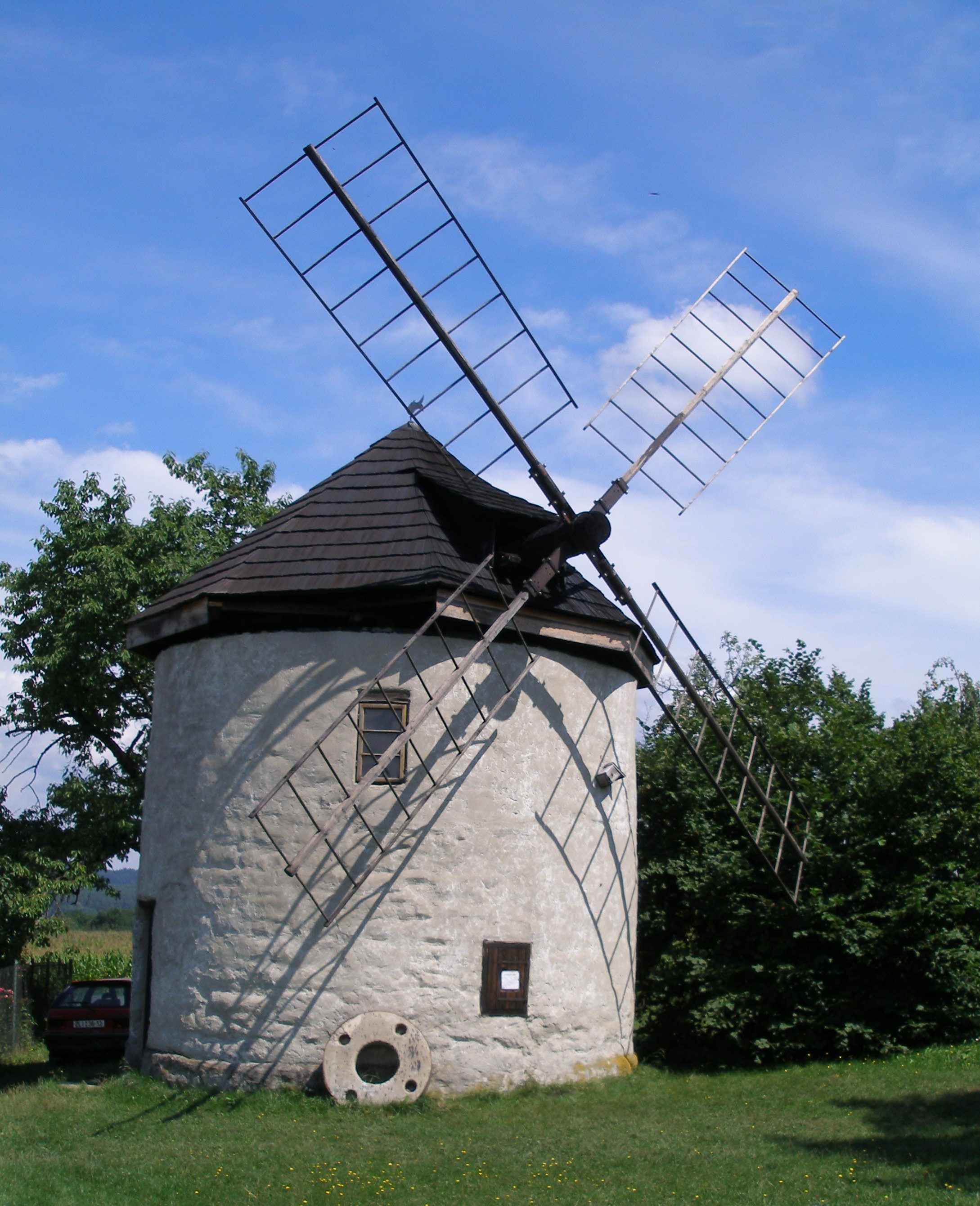 The windmill near Štípa.